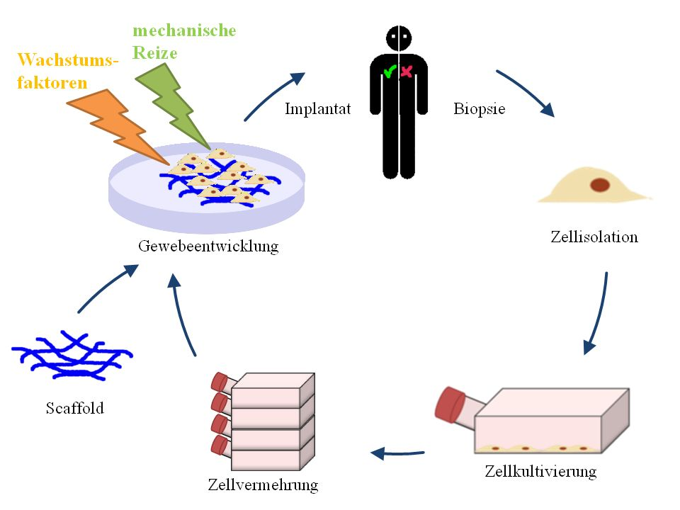 principles of tissue engineering